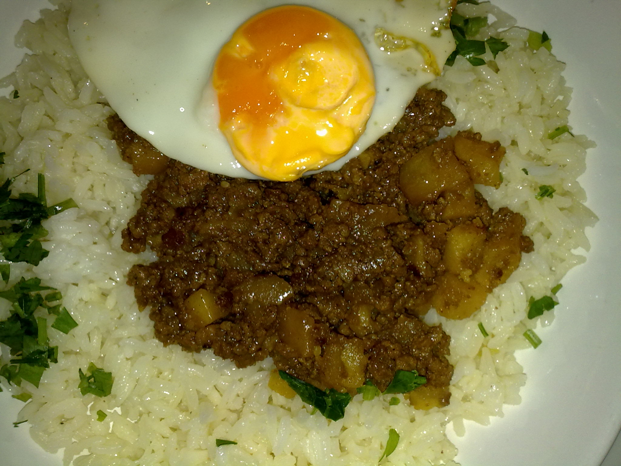 Minchi, a dish from Macau.